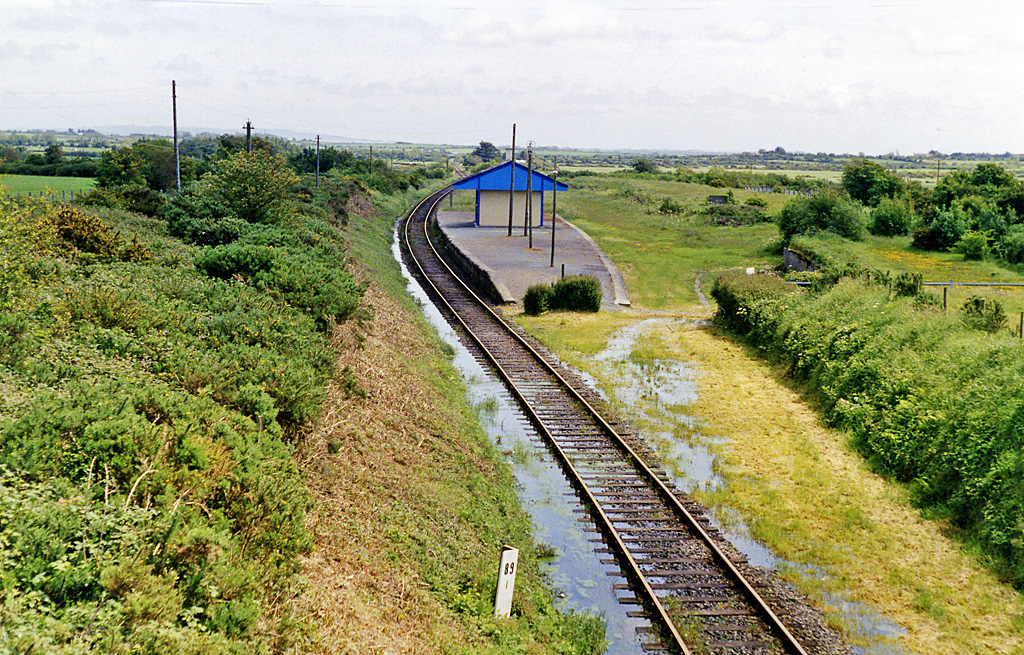 Ballycullane Halt - flooded, Near to Burkestown and Ballycullane, Wexford, Ireland. View westward, towards Waterford; ex-Great Southern & Western Limerick -Waterford - Rosslare line. The Halt was a long way from the village and was closed very recently (18/9/10).